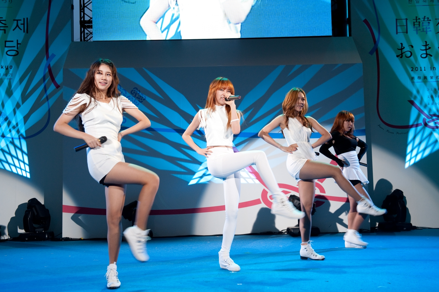 The two-day festival kicked off on October 1, with an opening ceremony under the slogan “Coexistence and co-prosperity for the 21st century,” followed by K-pop and cover dance contests alongside other cultural events. Various outdoor concerts were organized the next day, providing a unique chance to appreciate and compare the two nations’ traditional performing arts. A number of culture ministry-sponsored performances of fusion traditional Korean music and interpretative traditional dances were also performed on the stage. That evening, a K-pop concert featuring Korean idol groups including Miss A marked the highlight of the festival, reconfirming the heightened attention on Korean pop music. Throughout the event, visitors enjoyed Korea’s culinary culture, including tastings of savory Korean dishes and spices as well as a special cocktail performance involving makgeolli, a traditional Korean alcohol made with rice. The festival brought to the Japanese capital a variety of hands-on activities designed to offer an experience with Korean traditions and culture, such as trying on Hanbok, or Korean traditional clothing.